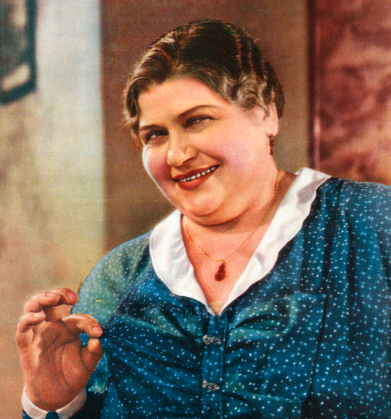 Czech actress Antonie Nedošinská (1885-1950) in the movie "Pokušení paní Antonie" (1934, director: Vladimír Slavínský)